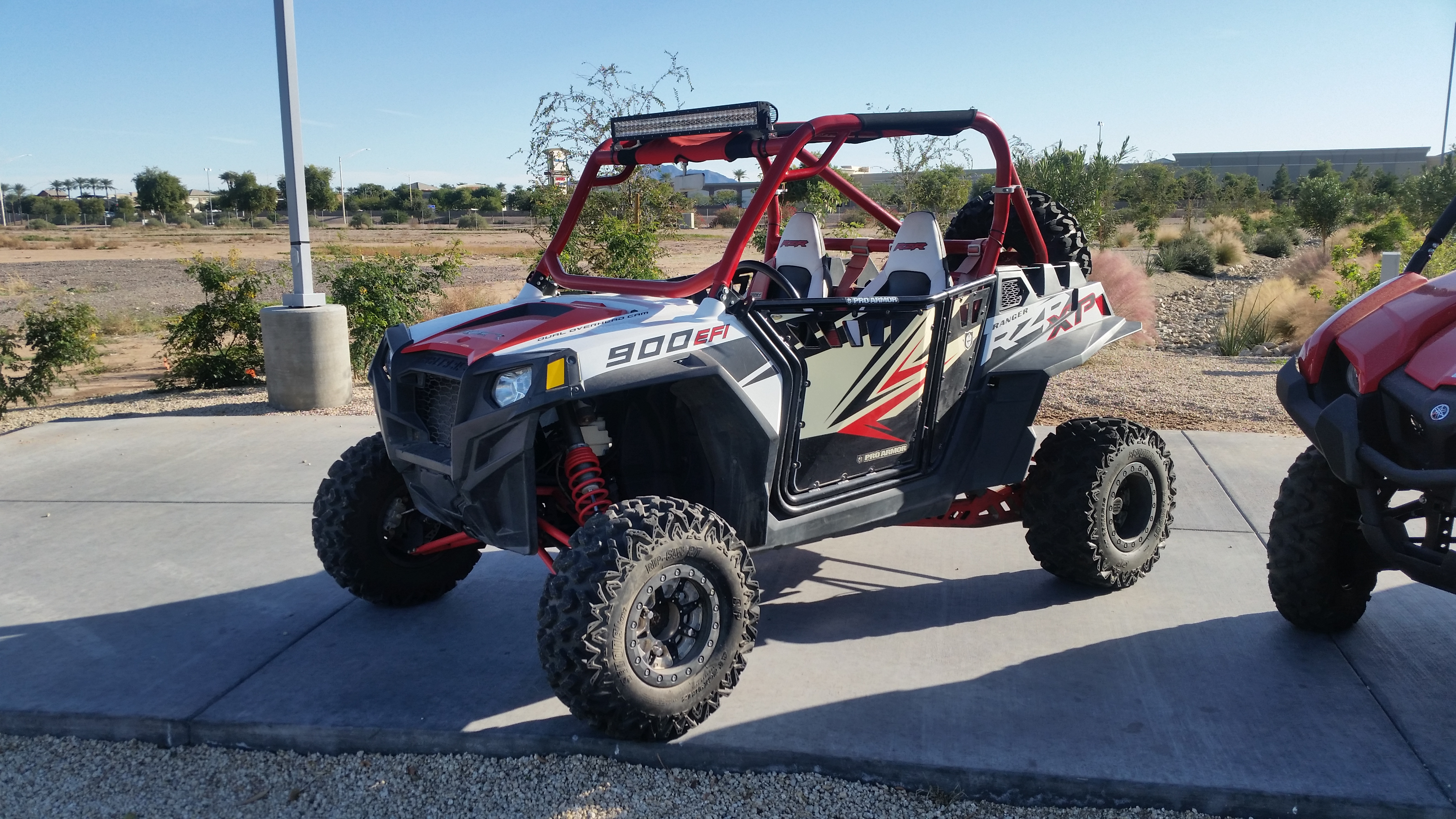 Polaris RZR XP 900 modified with aftermarket accessories